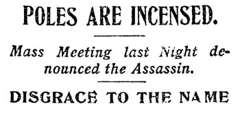 Poles are incensed.